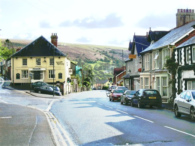 Sennybridge This is a view (south-)west douwn the main street A40 through Sennybridge. An information board in the car park off the left of shot states that the car park is adjacent to the old Brecon & Neath railway. Unfortunately, there is no evidence of the dismantled railway by the car park. The only sign I could find is that the large yellow building is a pub called "The Usk Railway".